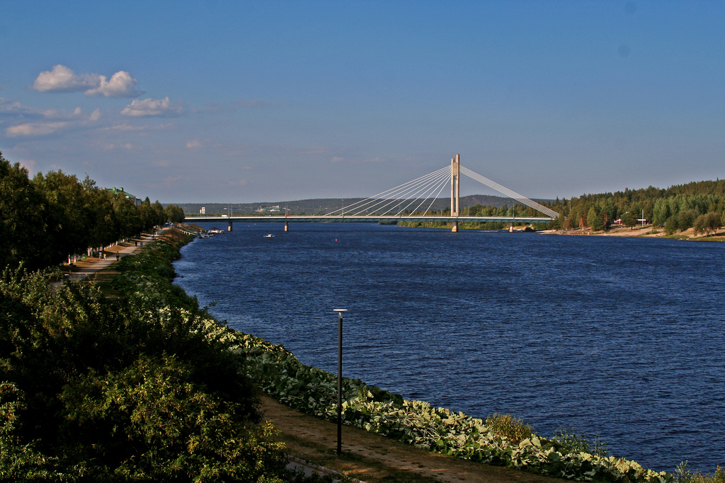 Jätkänkynttilä Bridge